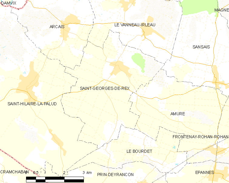 Map of French municipality Saint-Georges-de-Rex